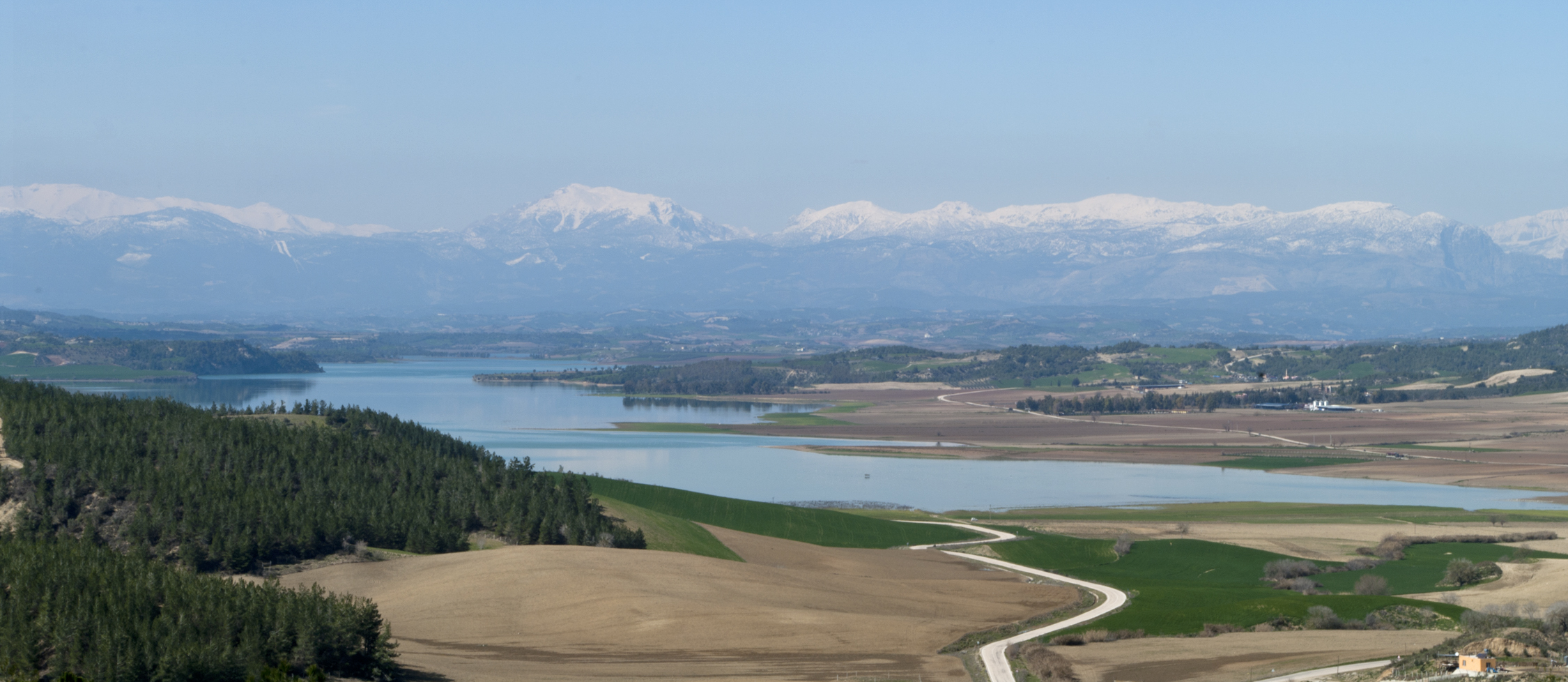 A view of northeastern end of Seyhan Dam Lake and Bolkar Mts (Taurus) from Hekimköy, Sarıçam - Adana, Turkey.